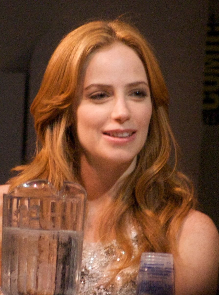 Jaime Ray Newman at ComicCon 2009.